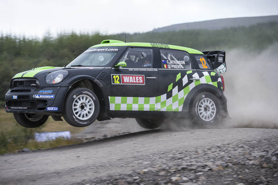 Wales Rally Great Britain 2012 Christopher Atkinson,Free Practice,Freies Training,Mini John Cooper Works WRC,Motorsport,Rally,Rallye,Shakedown,Stephane Prevot,WRC,WRC Team Mini Portugal,Wales Rally GB,Walters Arena